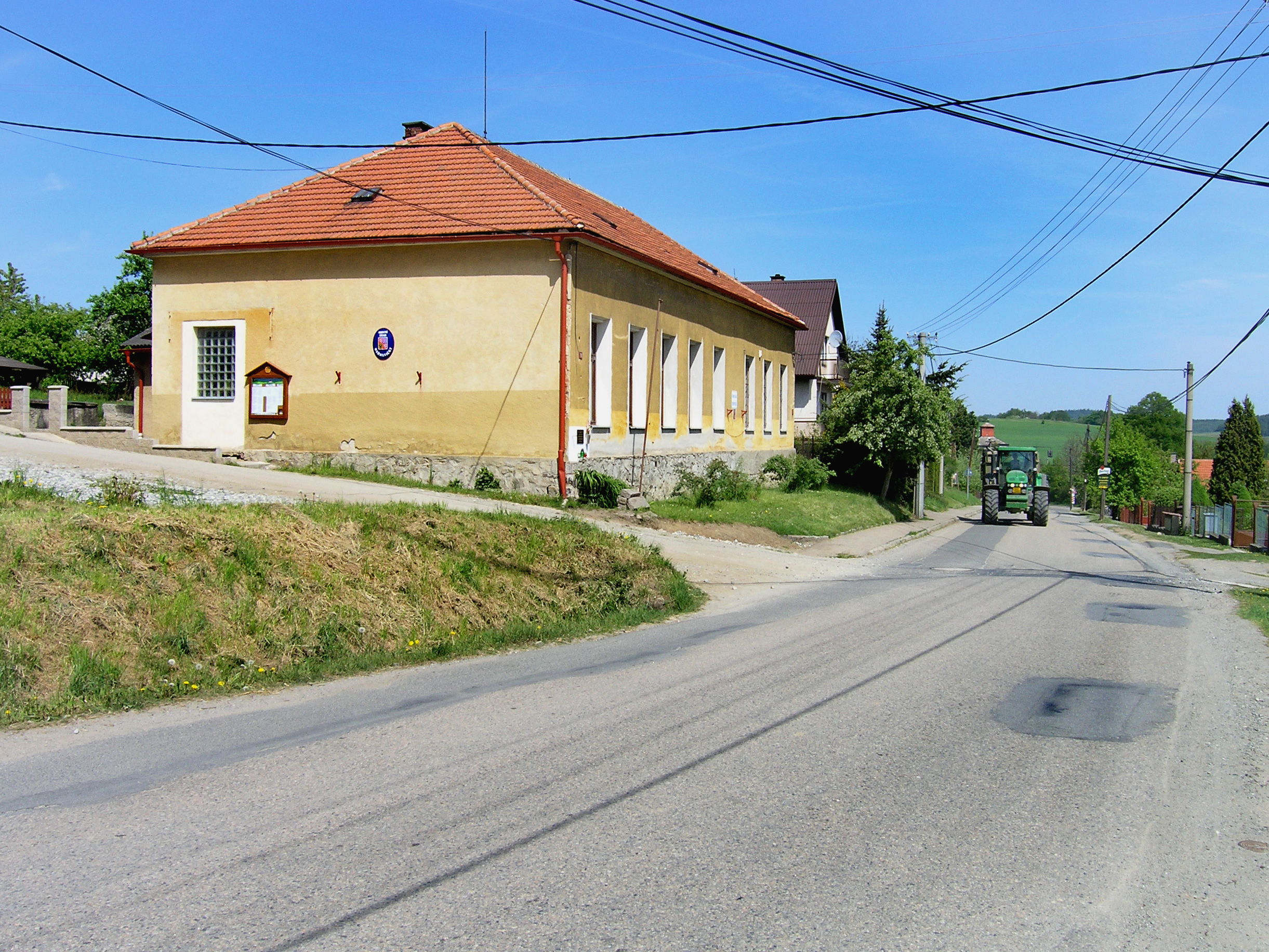 Municipal office in Heřmaničky village, Czech Republic